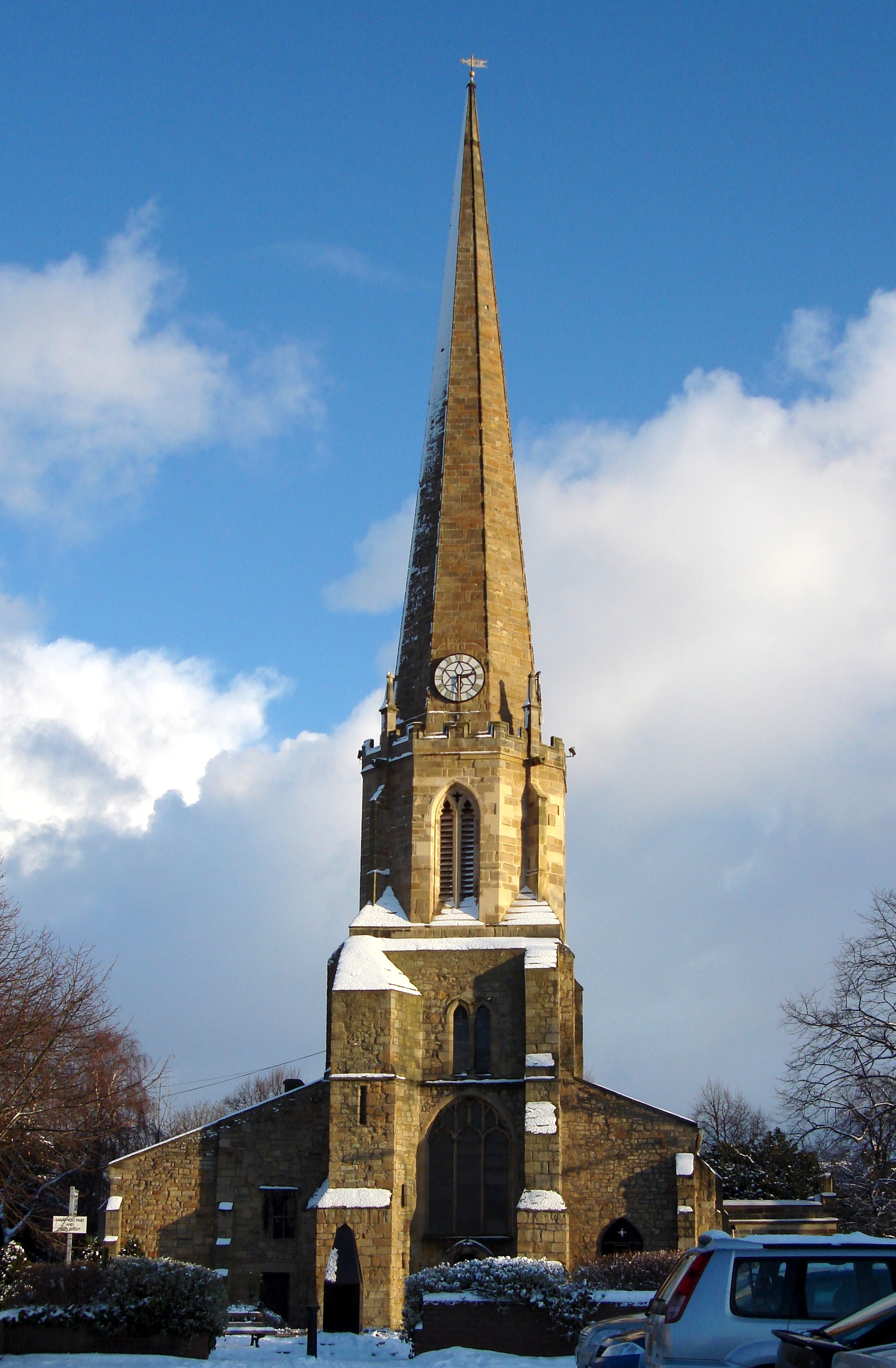 Parish church of St Mary and St Cuthbert, Chester-le-Street, County Durham, seen from the west in snow. The wider left side of the church is The Ankers House. The black shape in front of the church is the war memorial.